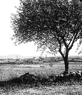 Skyline of the Quneitra in the background (behind the tree): Library of Congress Call Number: LC-M32- 3570 [P&P]